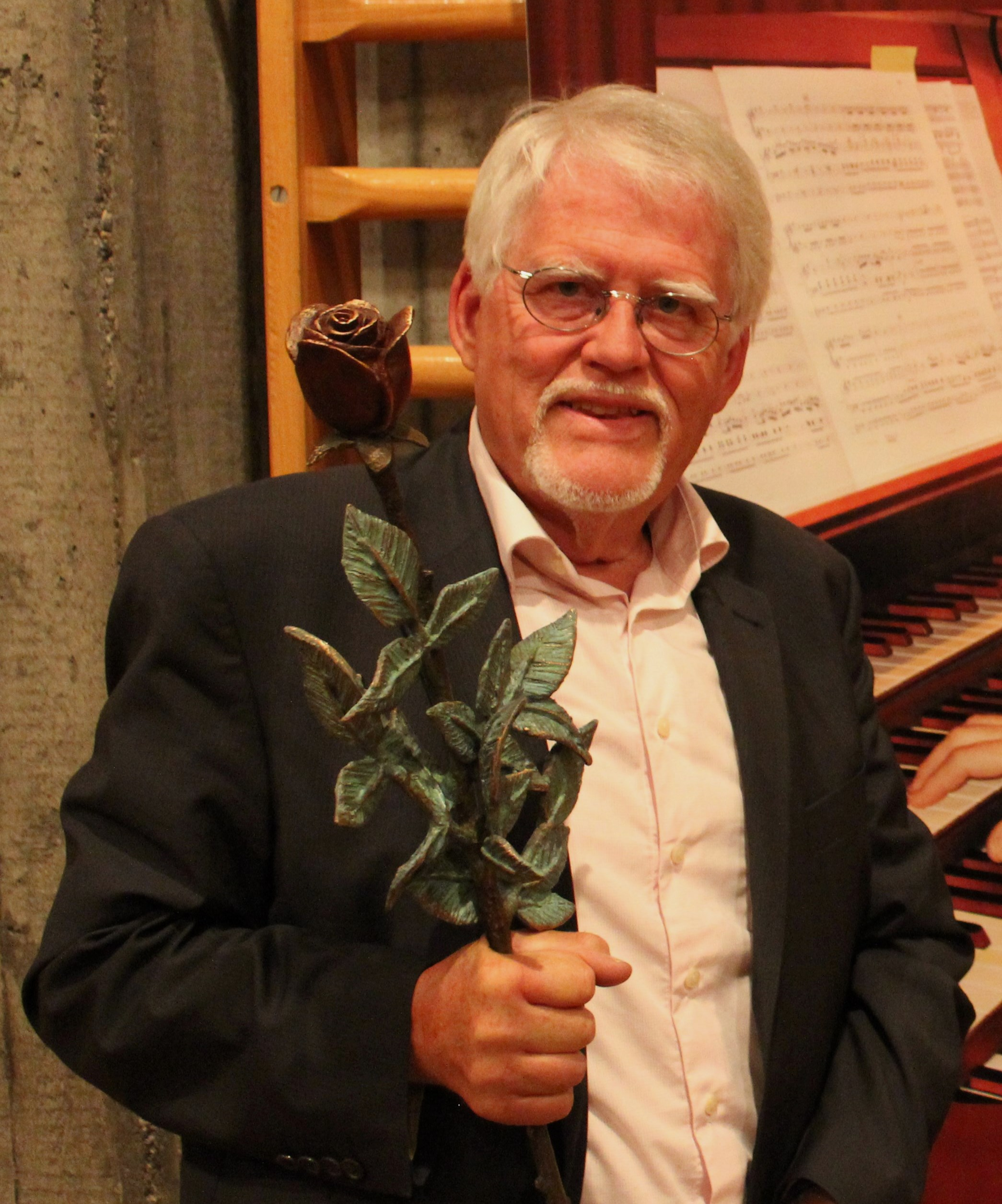 Swiss concert organist Olivier Eisenmann with a local award.